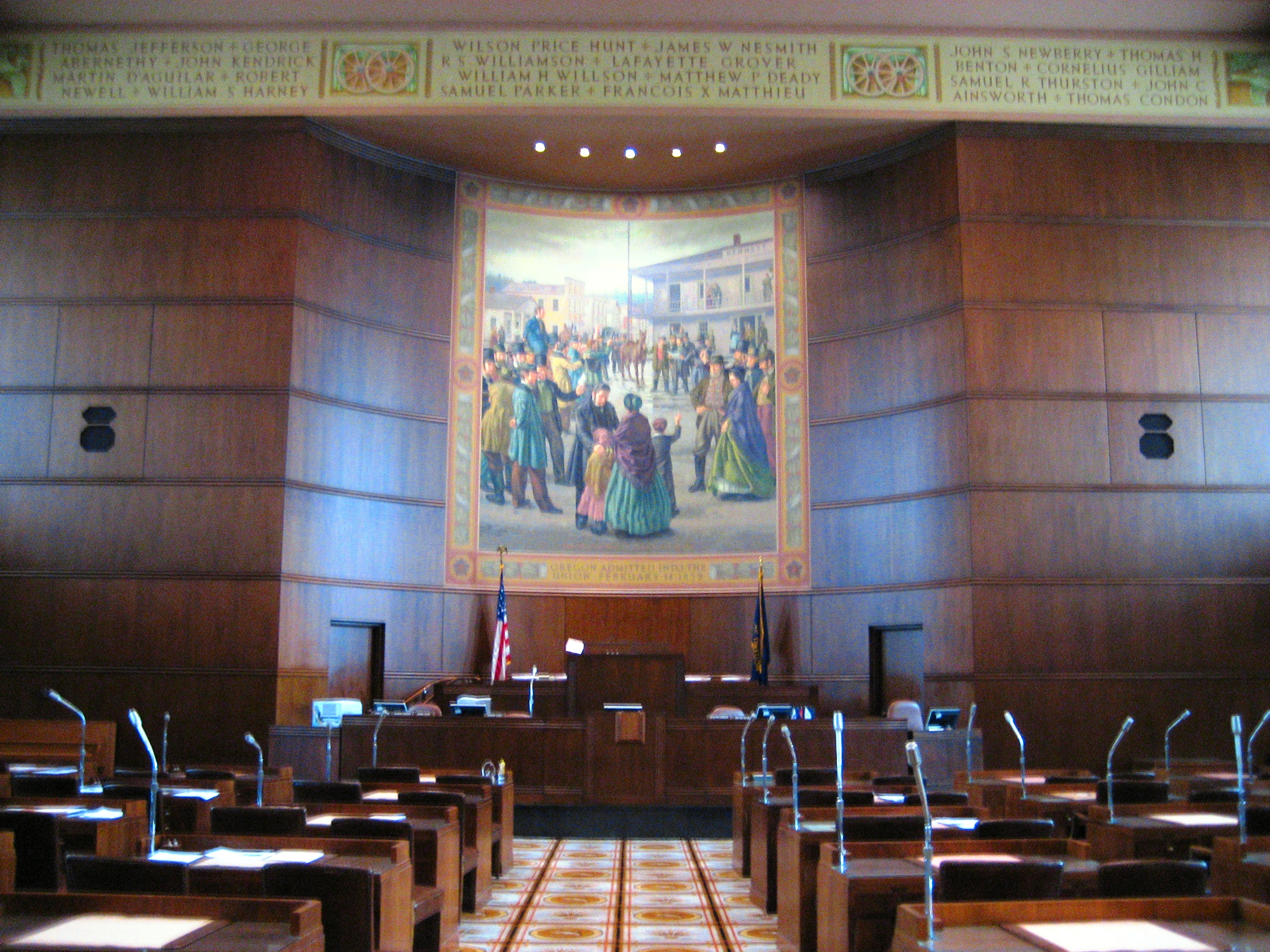 Oregon capitol building state senate chamber